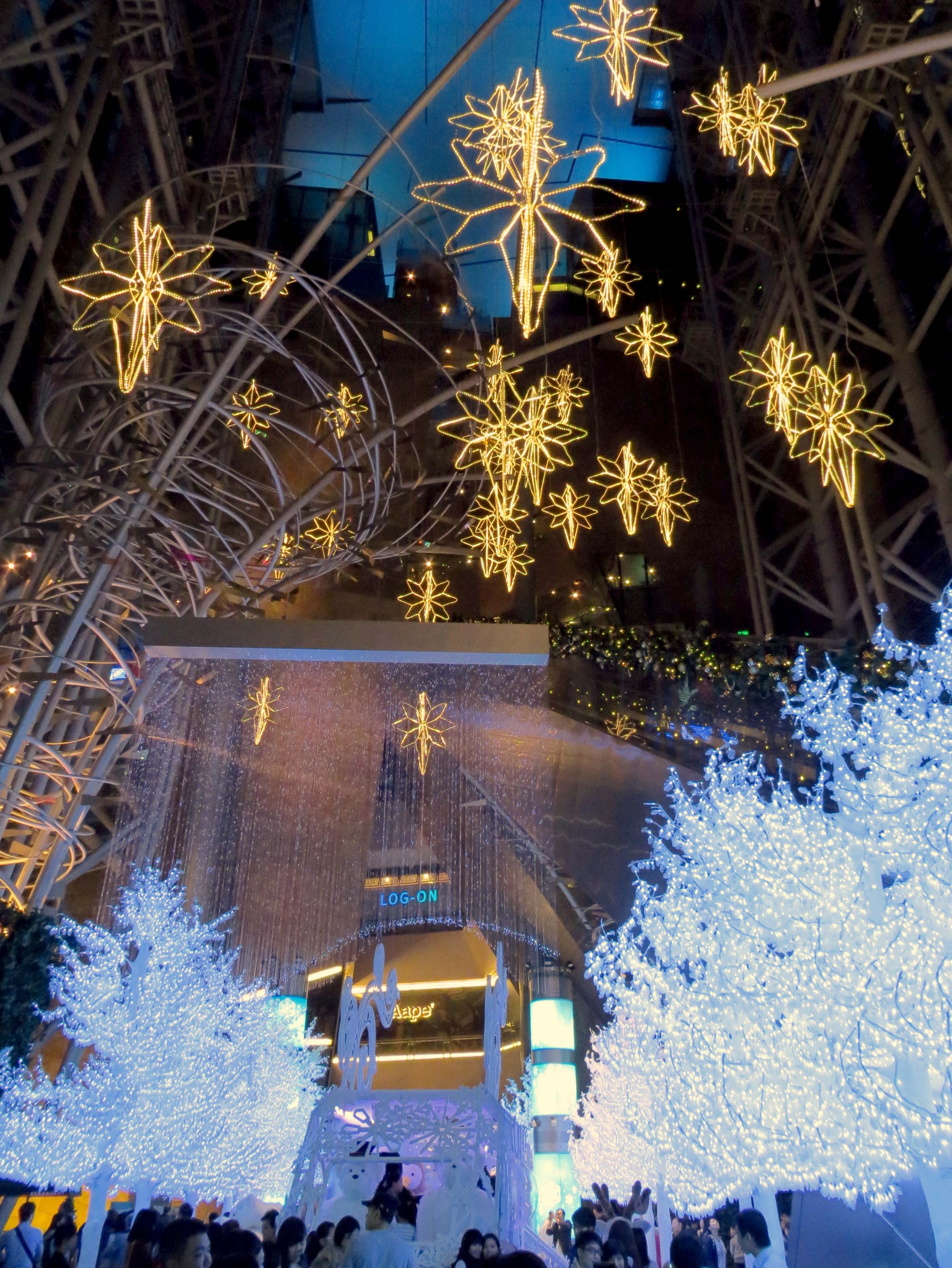 Illuminated Forest@Langham Place L4 Atrium, Hong Kong (13 Nov 2012 - 1 Jan, 2013)